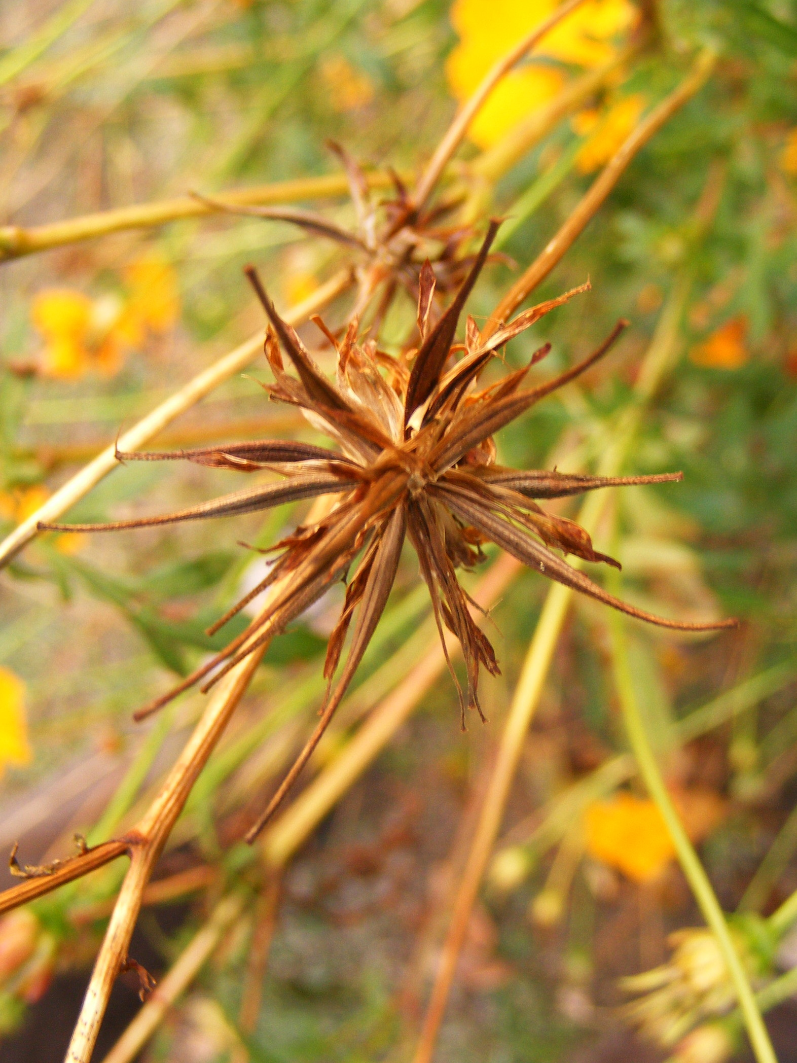 Cosmos sulphureus seeds intact on the plant.